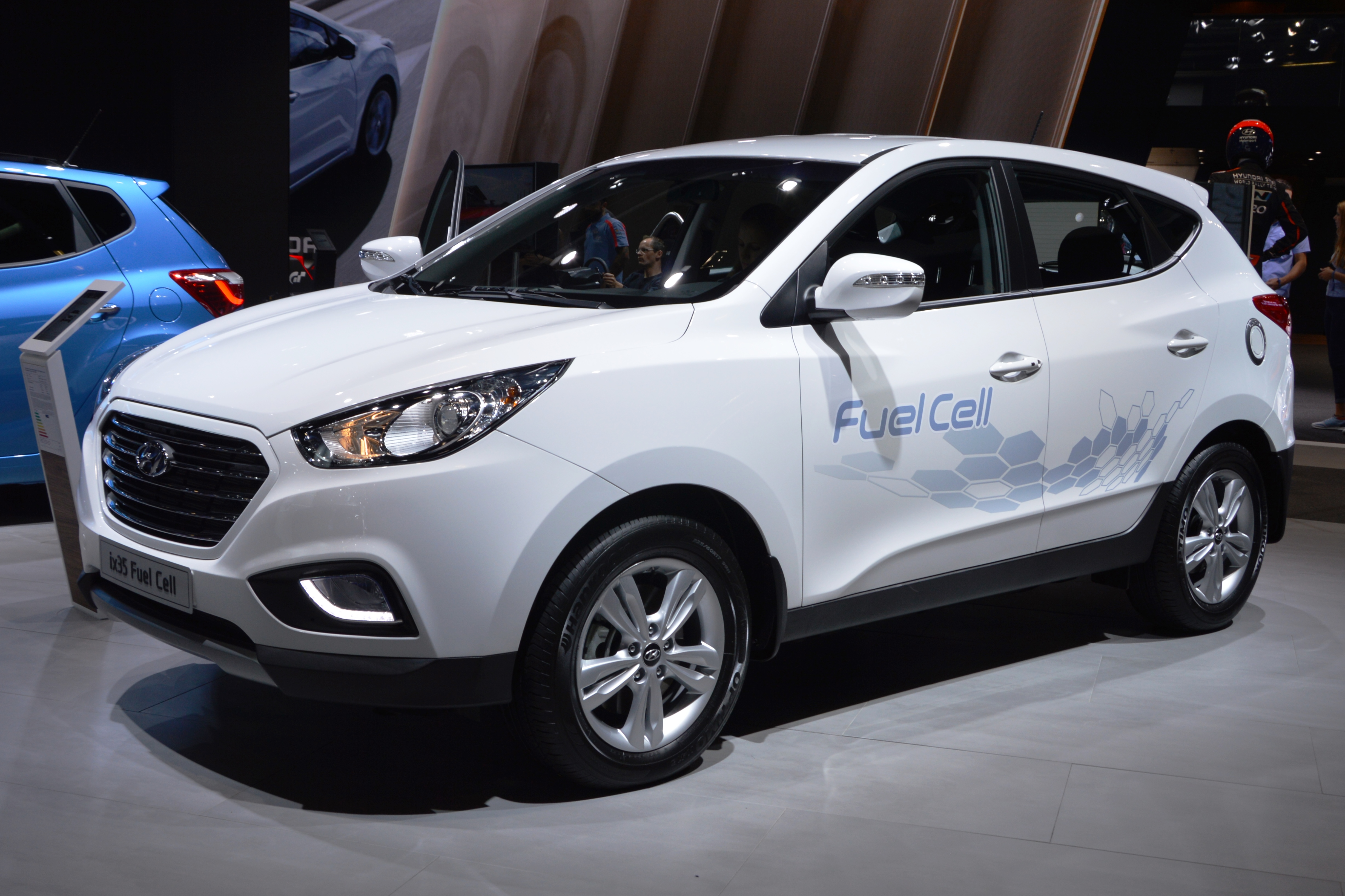 Hyundai ix35 Fuel Cell. Photo taken at exhibition IAA 2015 in Francfort, Germany.